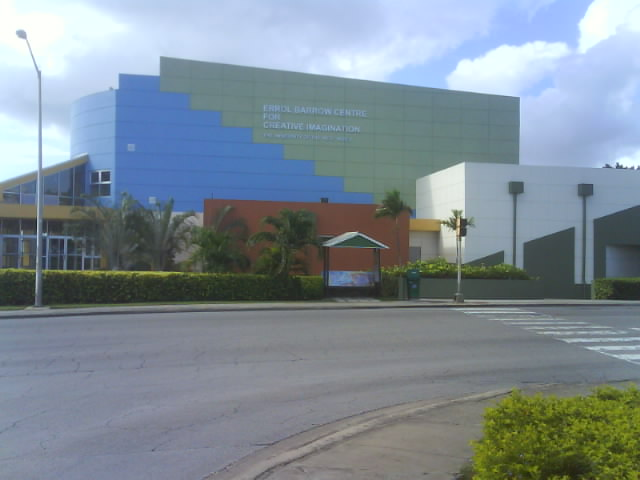 The Errol Barrow Centre For Creative Imagination. (Located at the Cave Hill Campus of the University of the West Indies.) In Cave Hill, St. Michael.